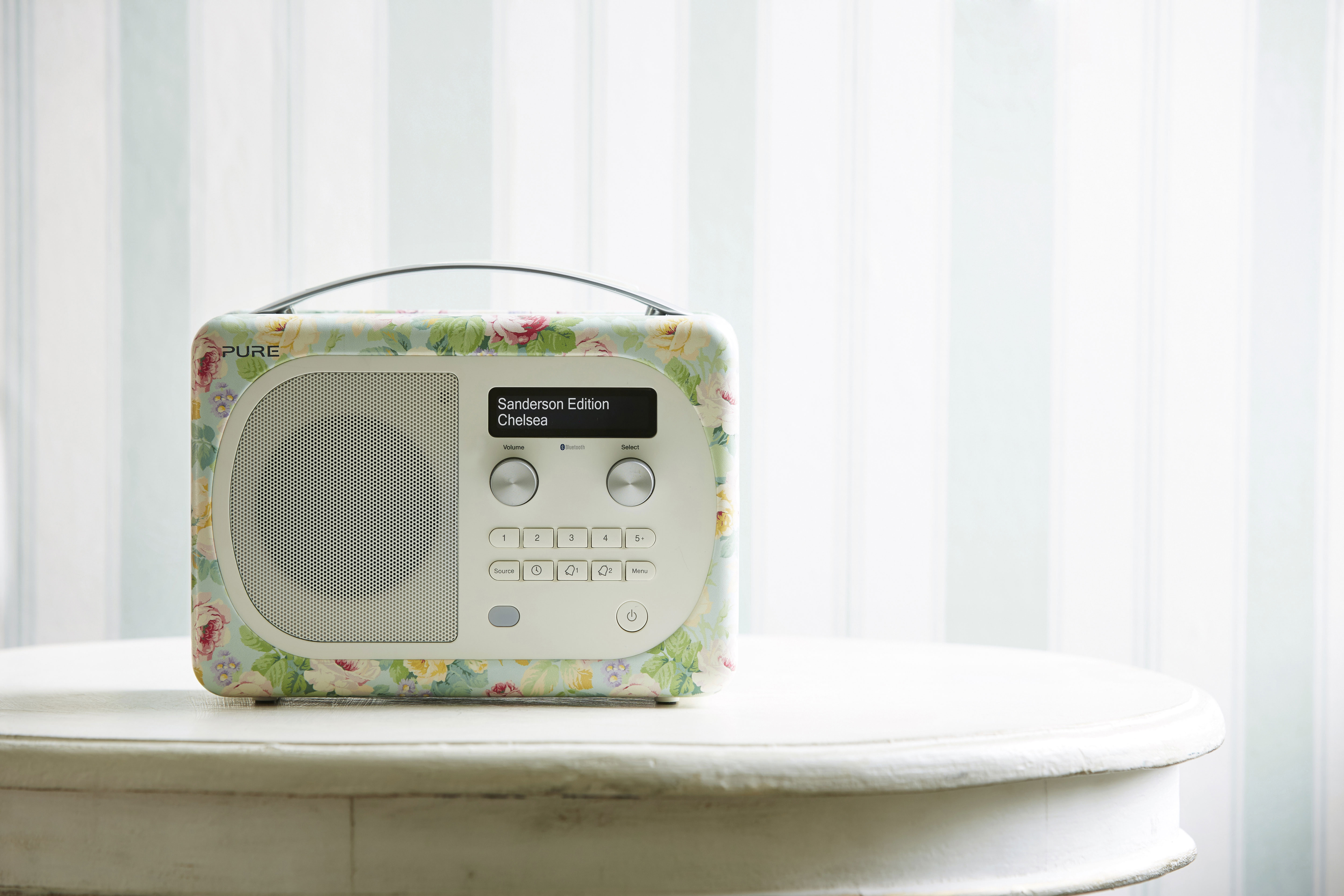 Designer collaboration with Sanderson